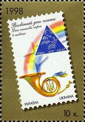 Stamp of Ukraine